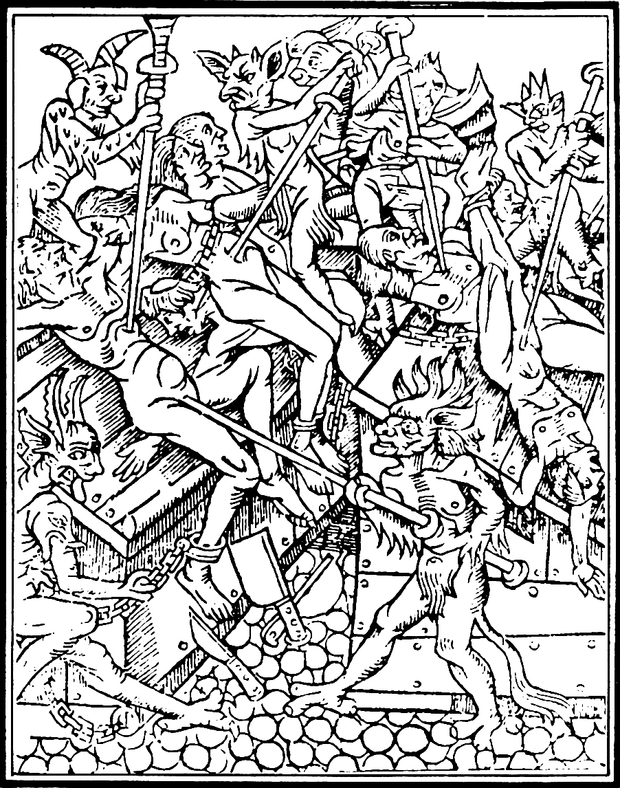 The torment of the nails.